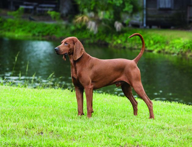 Profile